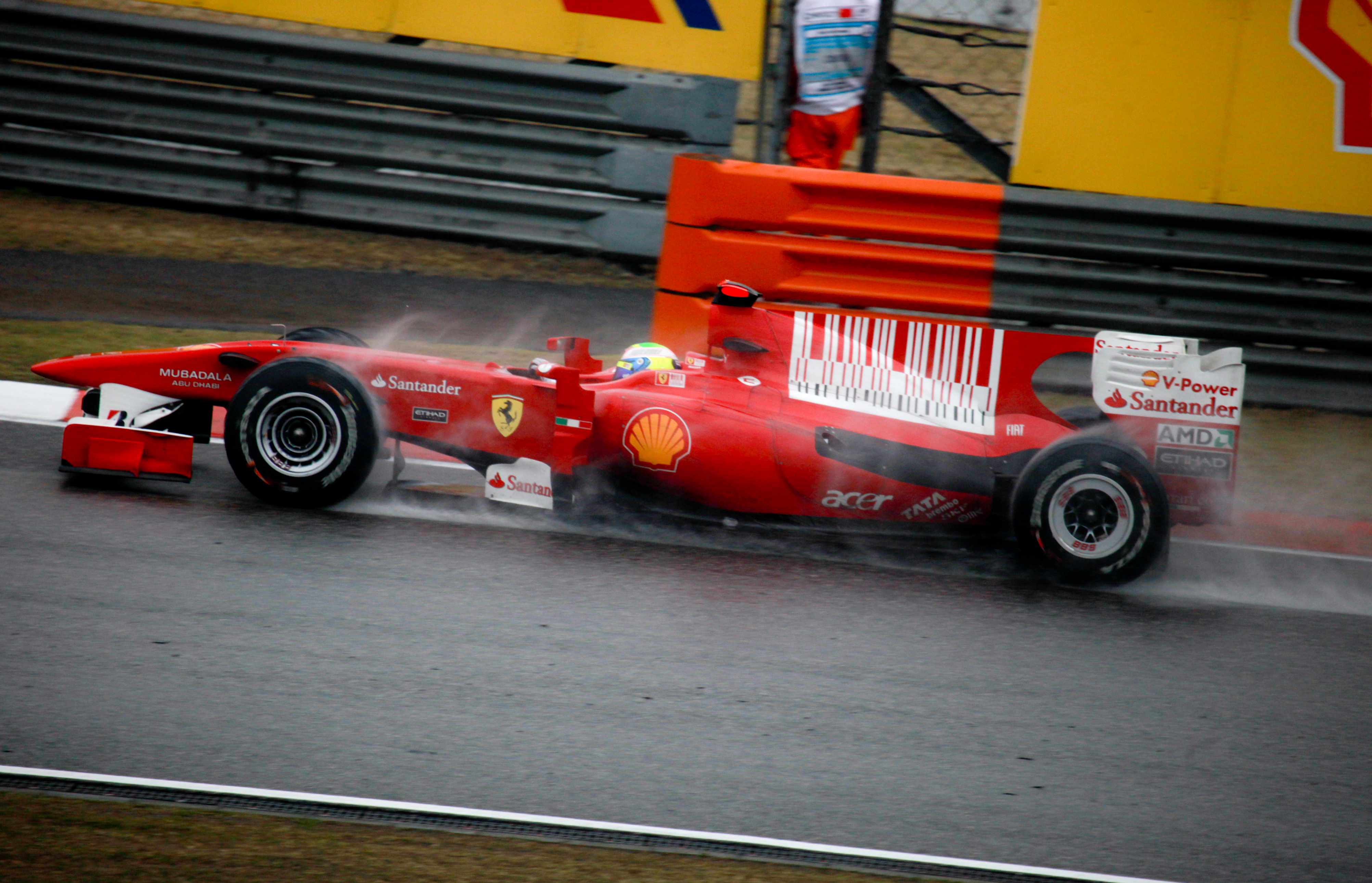 Felipe Massa driving for Scuderia Ferrari at the 2010 Chinese Grand Prix.